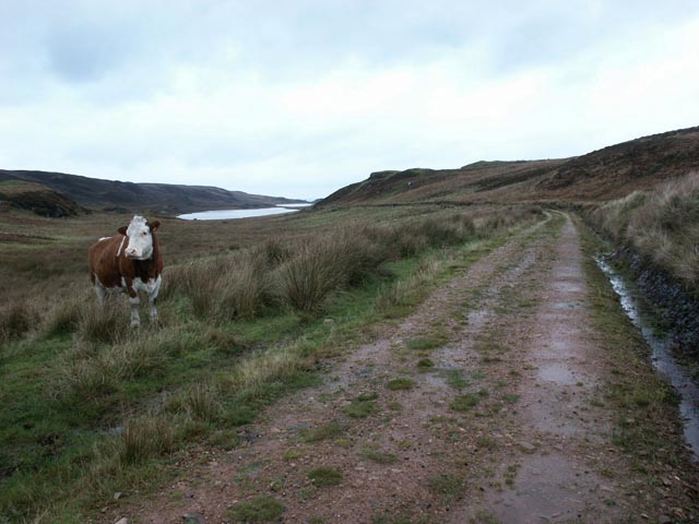 Track to Glenastle, Islay This track leads to the former farmstead of Glenastle. Glenastle Loch and Lower Glenastle Loch can be seen in the background.